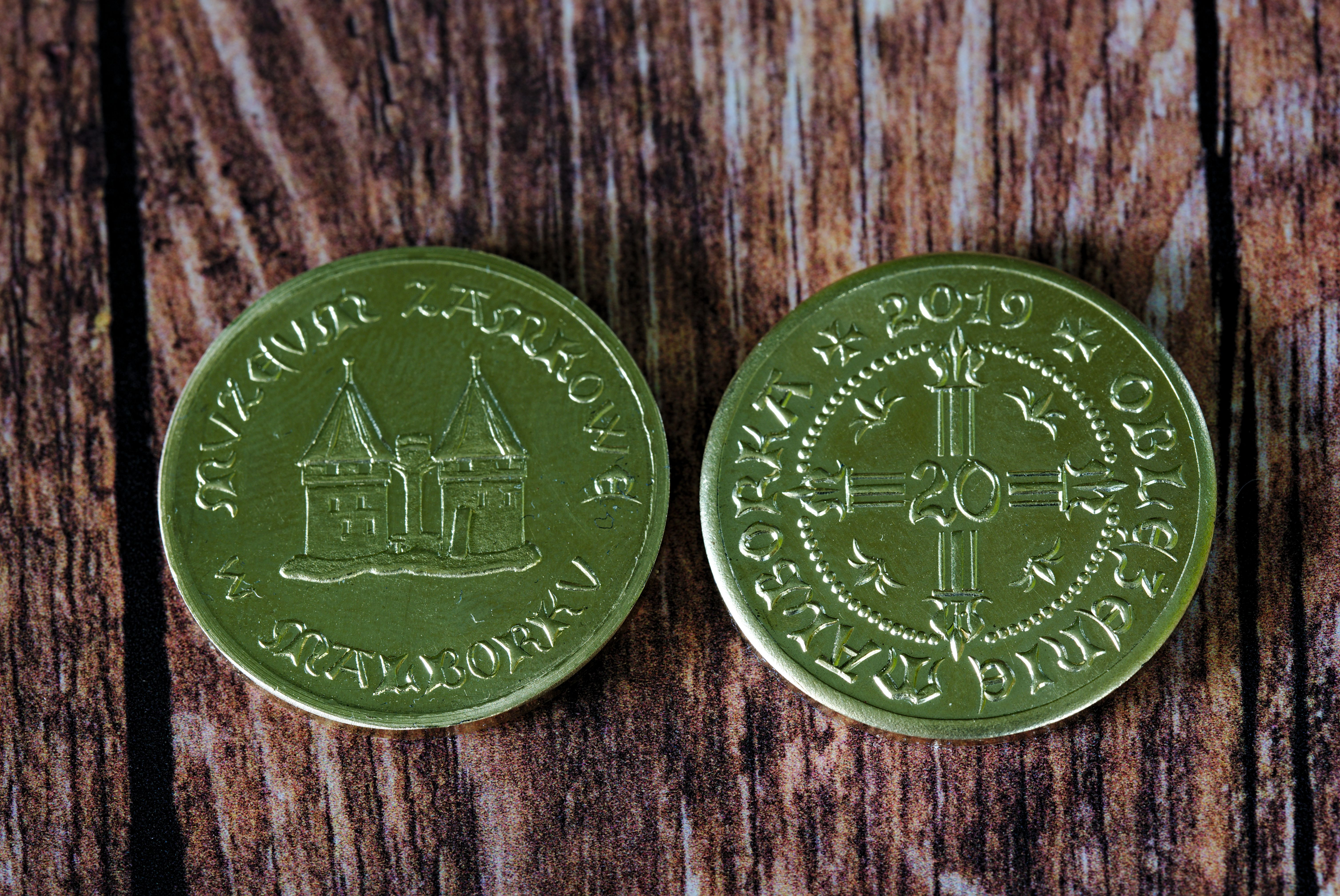 Two sides of the coin created for Malbork Siege in 2019, organized for 20th time.